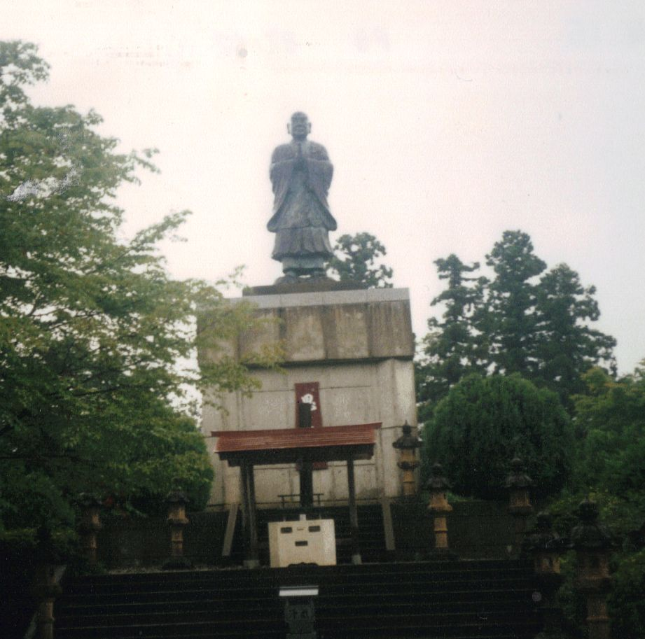 Nichiren Memorial at Jissoji Temple, Sado Island, Niigata Prefecture, Japan